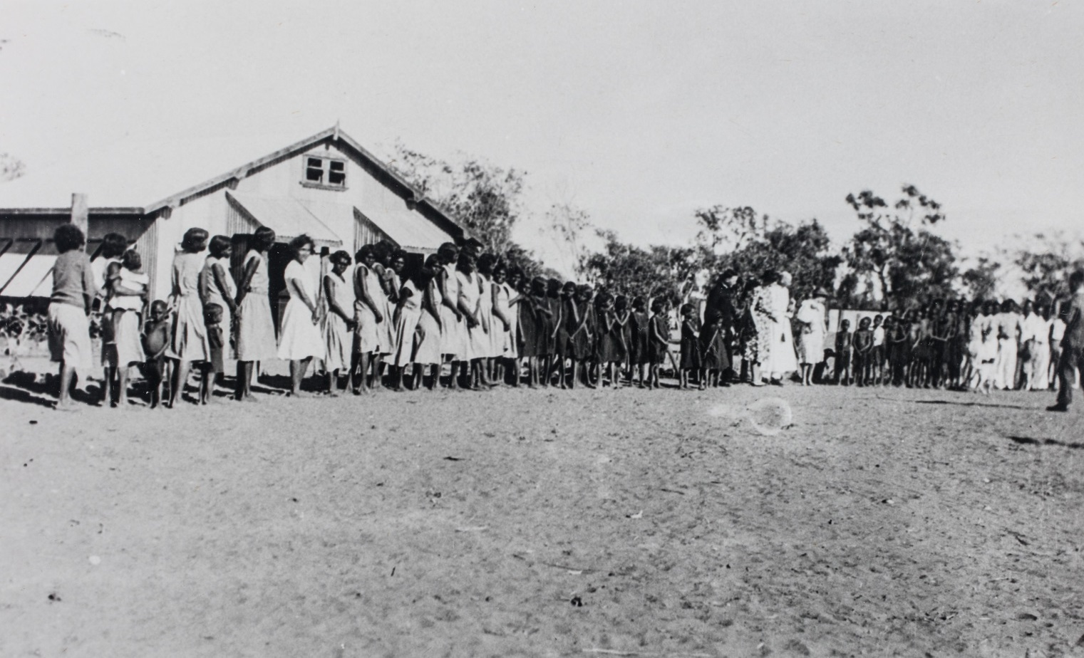 Roper River Mission was created by the Church Missionary Society in 1908 and taken over by the Northern Territory Government's Welfare Department in 1968. It was renamed Ngukurr in 1988 when the Yugul Mangi Community Government Council were handed control of the community.